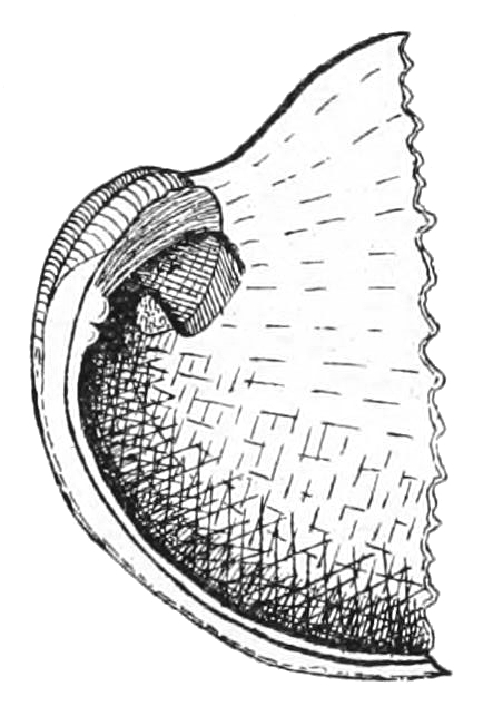 Drawing of ventral view of posterior part of the shell of Schizoglossa novoseelandica.